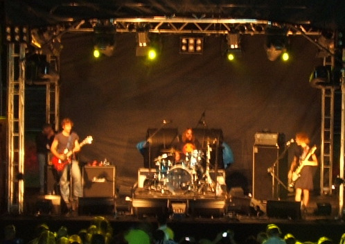 Spiderbait playing at the 2008 Australia Day Concert in Parramatta Park, Sydney, Australia